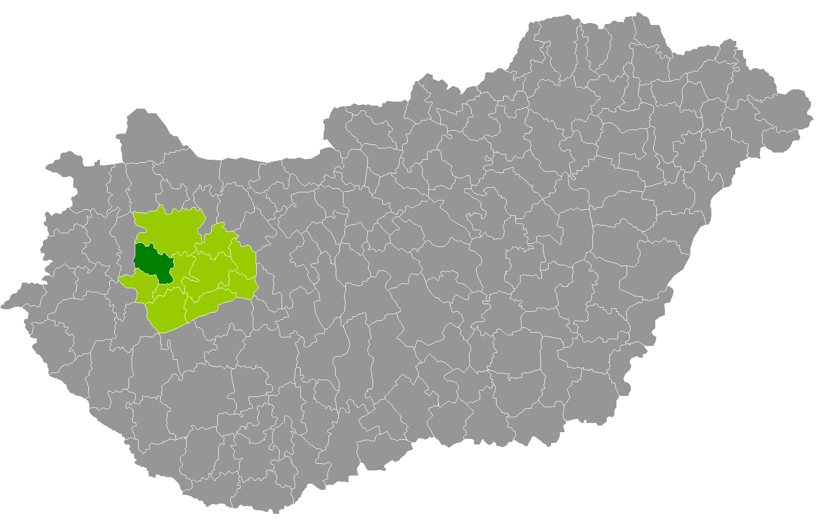 Location of Devecser District, Veszprém, Hungary